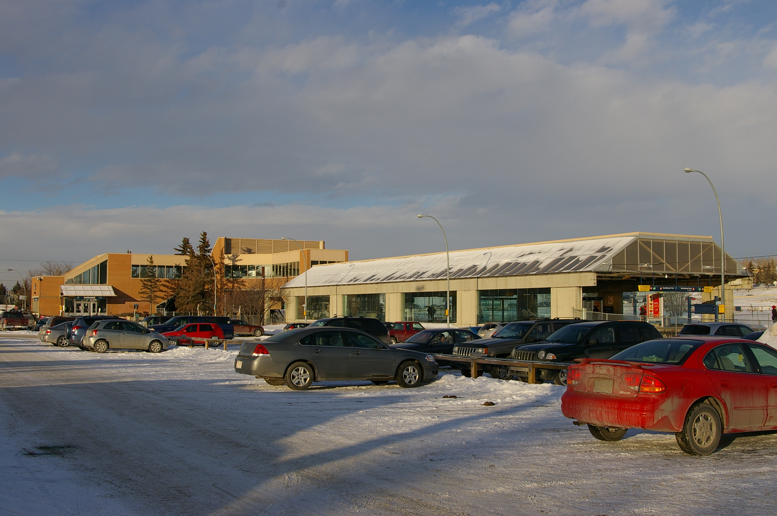 Heritage Station, Calgary.